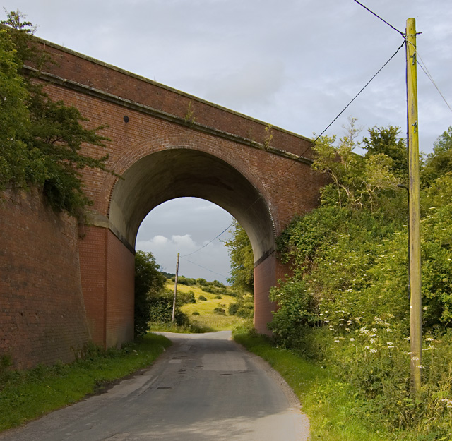 Kiplingcotes rail bridge, Kiplingcotes, East Riding of Yorkshire, England.The bridge carries the disused Beverley to York rail line over Goodmanham Dale Road. The trackbed here is part of the Hudson Way recreational route.